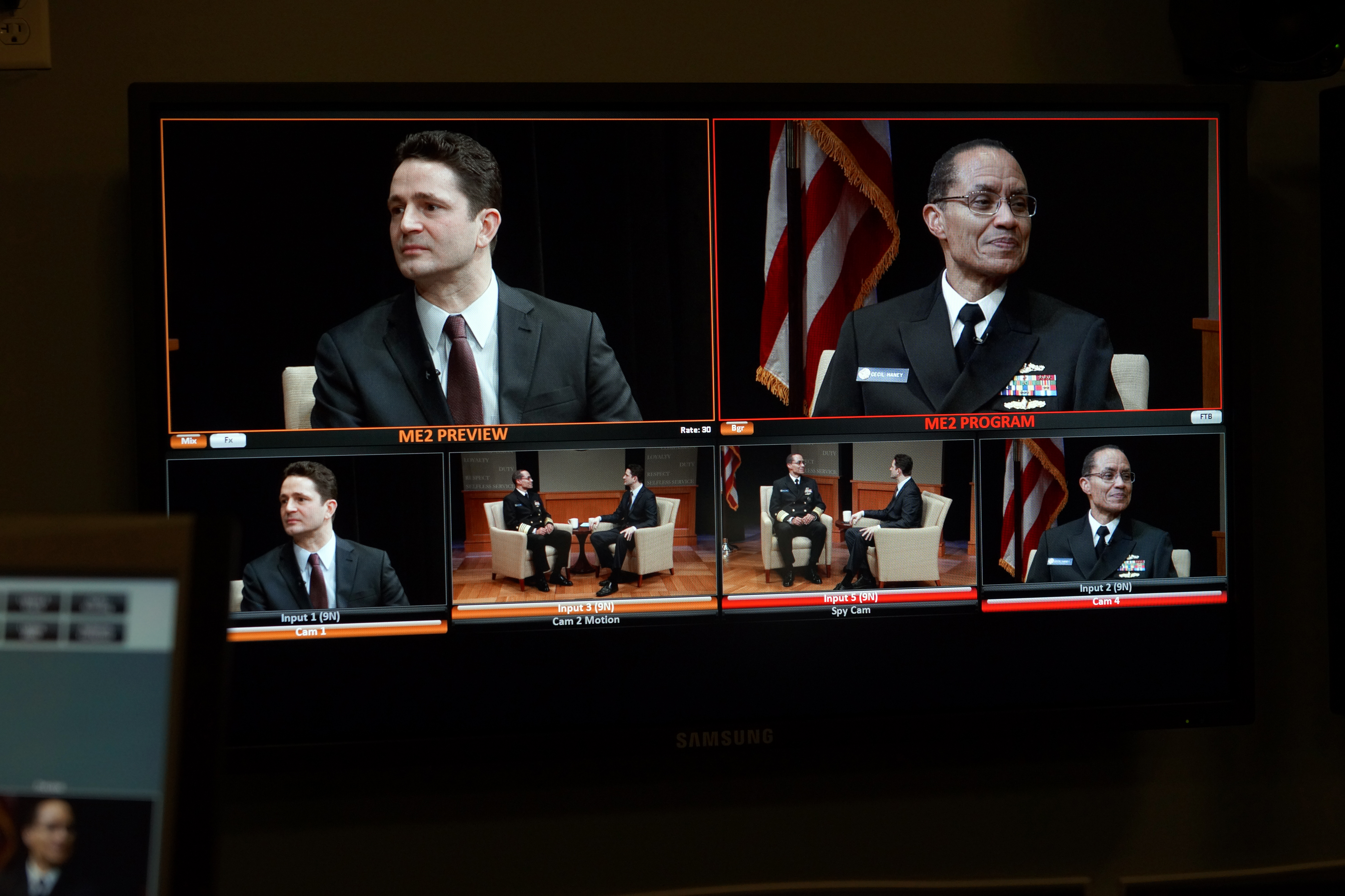 Viewed from the production control room: U.S. Navy Adm. Cecil D. Haney, U.S. Strategic Command (USSTRATCOM) commander (top right), participates in an interview with Kenneth Clarke, Pritzker Military Museum and Library president, for the original programming series, Pritzker Military Presents, Chicago, Ill., Feb. 23, 2016. Pritzker Military Presents, which airs on PBS and can also be viewed on YouTube, is a series in which guests come to the Pritzker Military Museum and Library in downtown Chicago to discuss topics related to military history. (U.S. Navy photo by Lt. Cmdr. Jeffrey S. Gray)